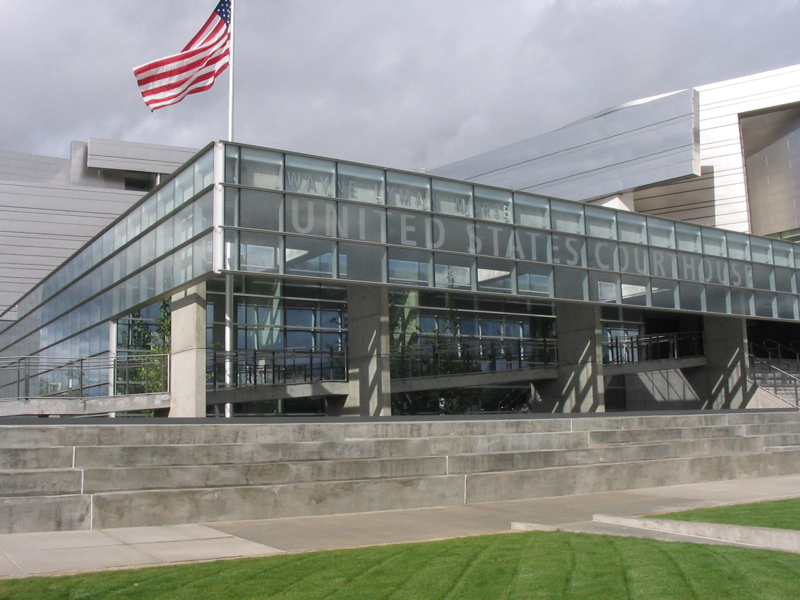 Wayne L. Morse United States Courthouse, in Eugene, Oregon